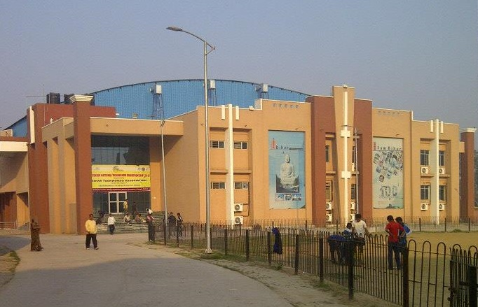 Patliputra sport complex